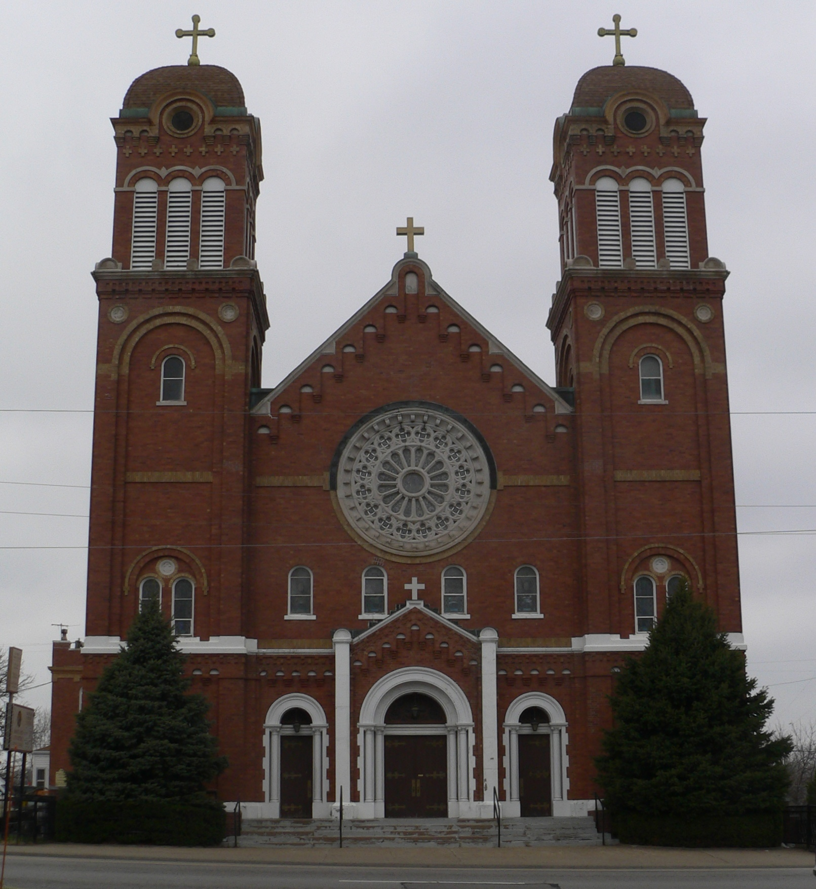 Immaculate Conception Church, located at 2708 S. 24th Street in Omaha, Nebraska; seen from the east, across 24th.